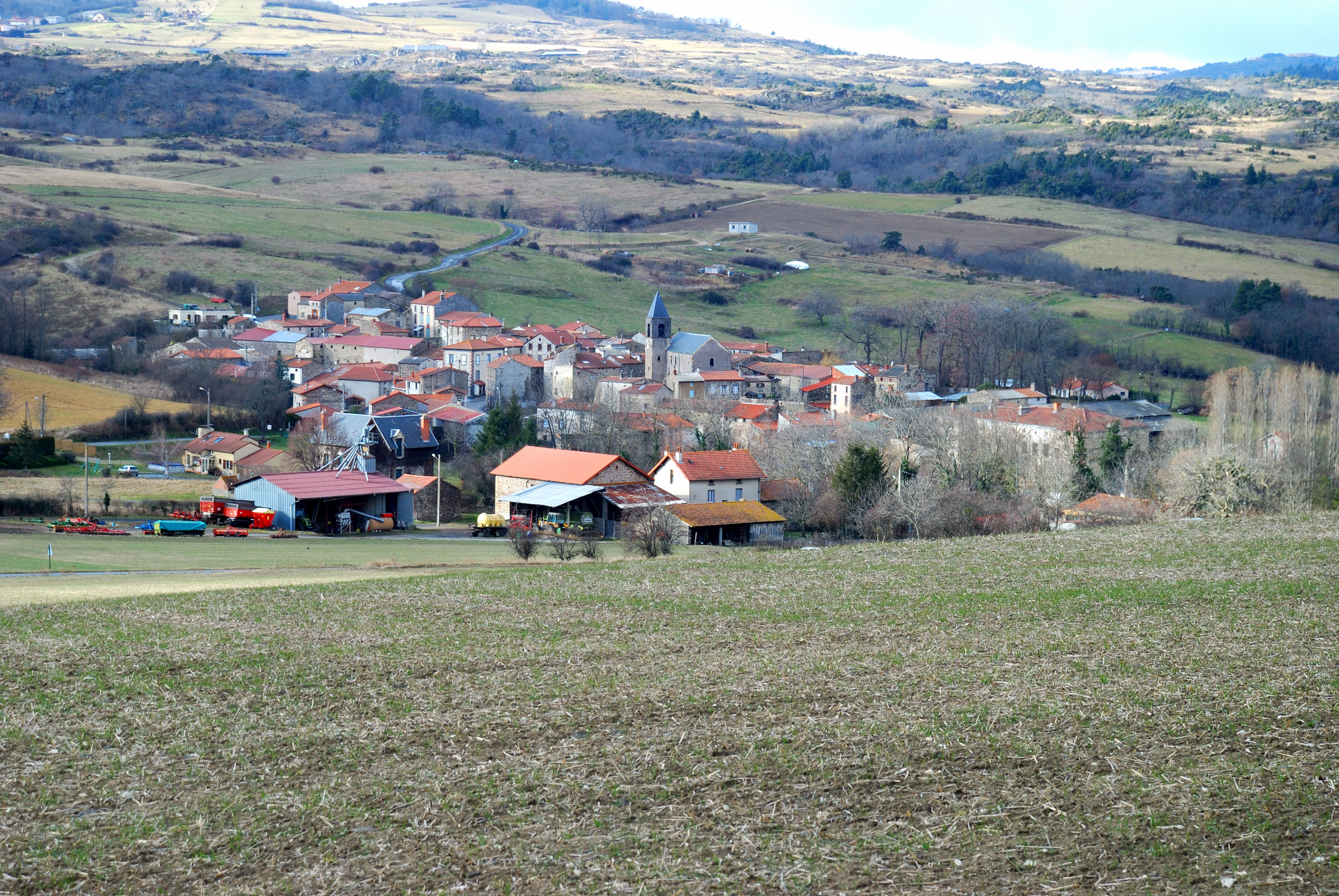 Chaynat (Puy-de-Dôme, France).